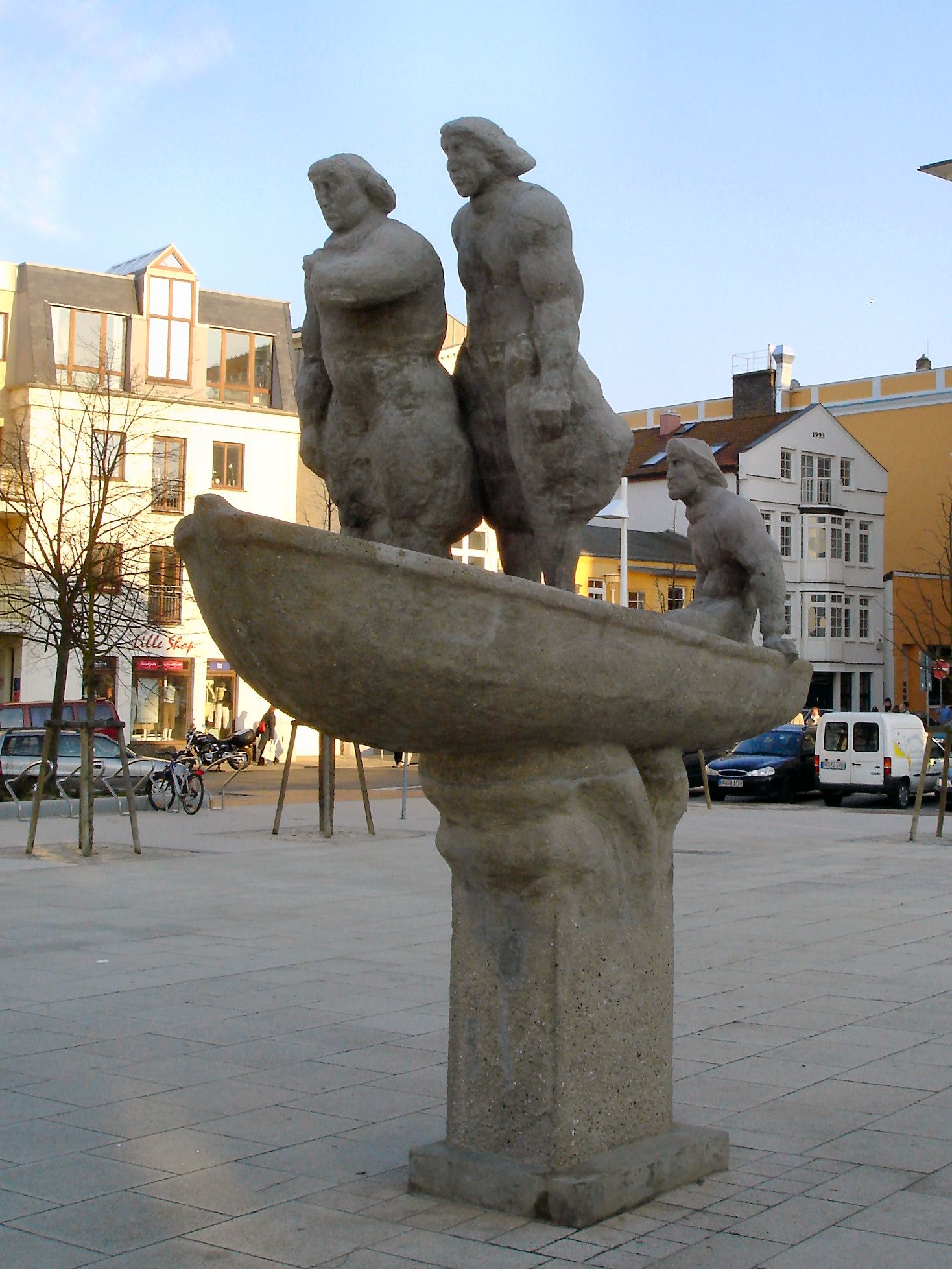 Skulptur "Lotsenehrung" von Reinhard Dietrich in Rostock Warnemünde / tribute to the pilots and the saviours from distress at sea